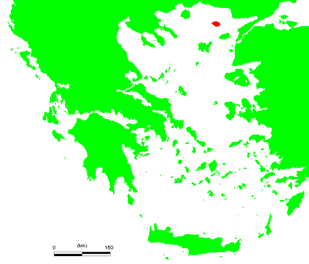 location of samotraki island